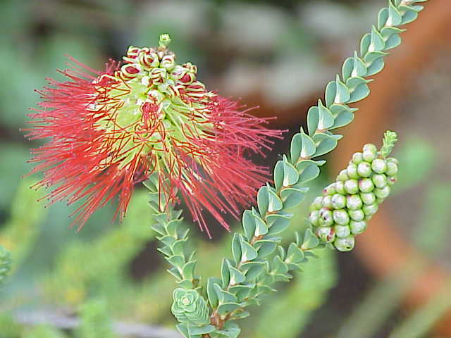 Species: Beaufortia orbifolia Family: Myrtaceae Image No. 2